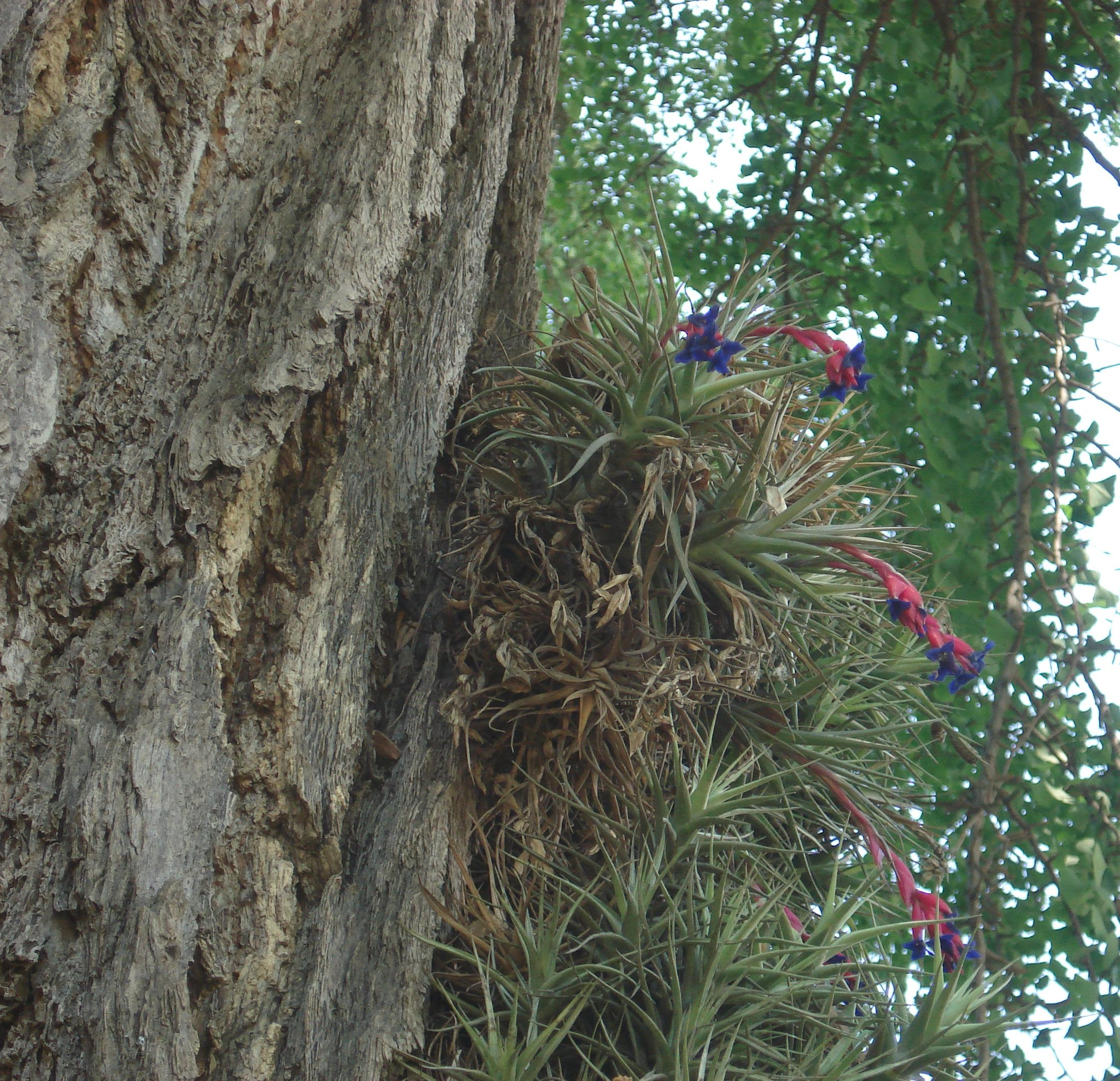 Tillandsia aeranthos on the trunk of a Ginkgo biloba tree, in the Orto botanico di Pisa (Pisa botanic garden), Italy.